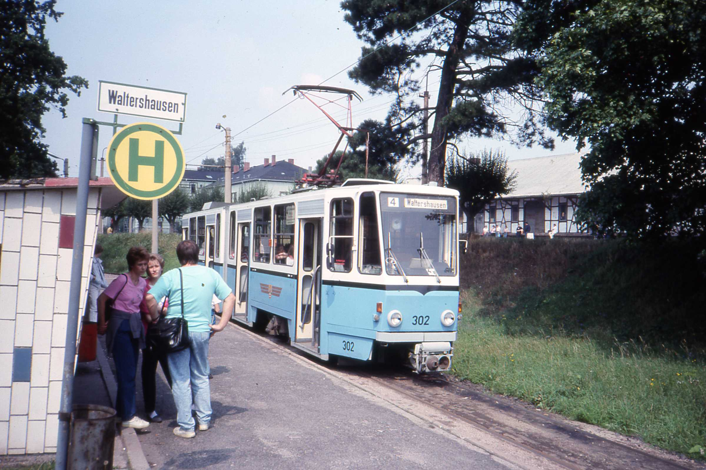 Tatra KT4DM car no 302 in Gotha's blue variant livery is looking most attractive - as were similar cars in the yellow livery - outside the terminus at Waltershausen. Behind the tram is the DR railway station which at the time supported an extremely busy Mitropa bar cum cafe, no doubt kept in business by the large workforce travelling to and from the IFA vehicle factory here. Six Tatra KT4DM trams, 301-6 were introduced in Gotha between 1981 and 1982. A further thirteen similar vehicles, 307-19 , were acquired from Erfurt in 1990. A complete list of Strassenbahn Gotha trams is found here. More recent photographs of the area around Linie 6 can be seen here Waltershausen Bahnhof is now served by a roughly half-hourly shuttle service from Waltershausen Gleisdreieck, Linie 6. The early Tatra trams are now painted blue and yellow. The famous Kowalit rubber factory and that making the Multicar small commercial vehicle are located in Waltershausen. Is the charming tram shelter still there? The turning circle lay behind it. More about the t4 TRAMS here 301 and 302 were in the blue town livery originally, 303-6 in the yellow Thueringerwaldbahn yellow livery. In 2000 these were all modernised.